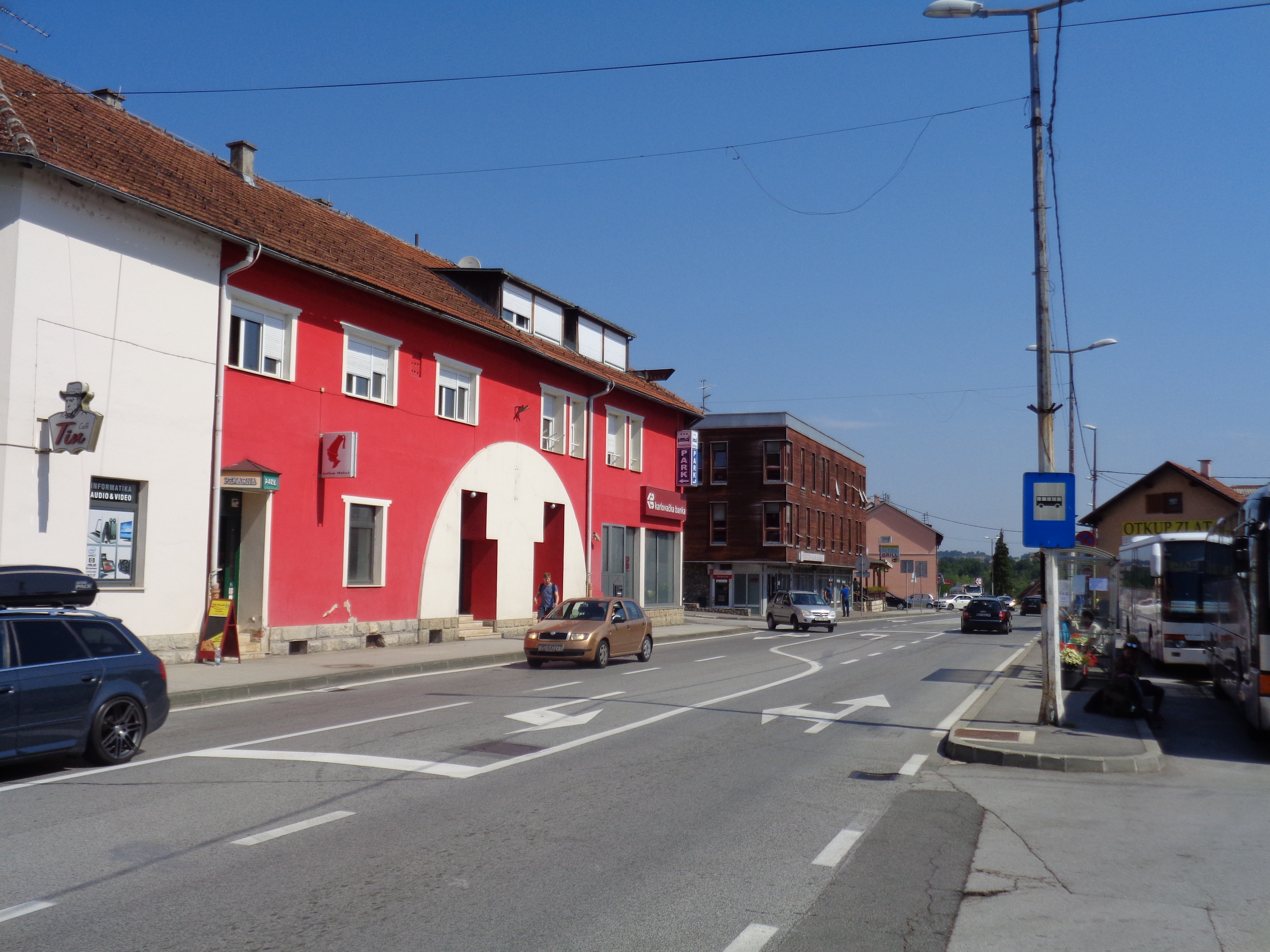 Slunj, Karlovac County, Croatia - street in the town centre